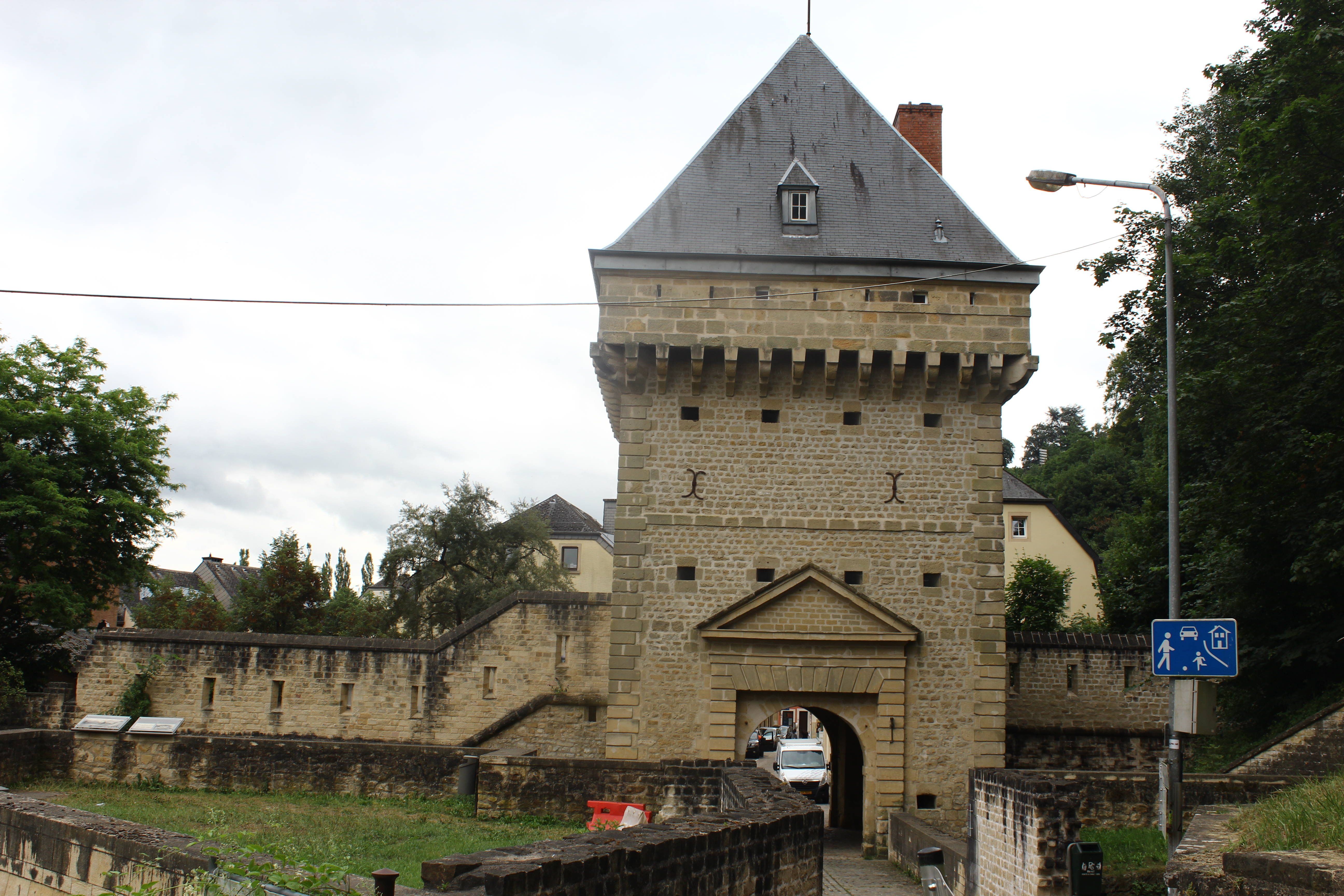 Porte d'Eich/Eecherpaart, one of the remaining entrance gates to the Fortress Luxembourg, in Pfaffenthal/Pafendall. Built enfd 17 c. by Vauban.